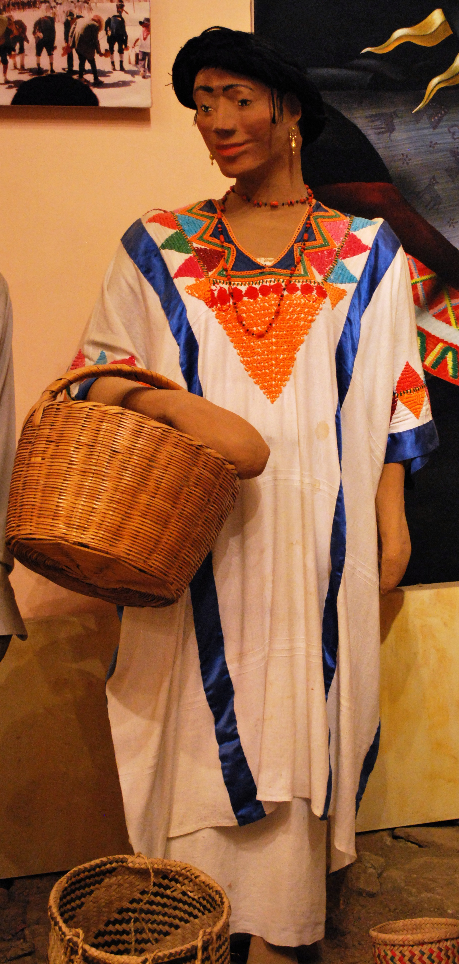 Mannequin with traditional Mixtec garb on display at the Regional Museum of Huajuapan in Huajuapan, Oaxaca